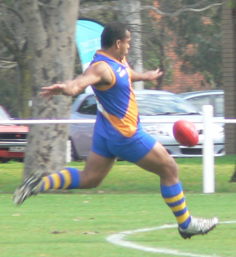 Nauruan player kicks the ball downfield